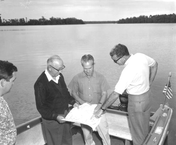 Persistent URL: Local call number: C067089AT Title: Roy Disney inspecting property in Florida Date: CA. 1964 Physical description: 1 photoprint - b&w - 4 × 5 in. Series Title: Department of Commerce Collection Repository: State Library and Archives of Florida 500 S. Bronough St., Tallahassee, FL, 32399-0250 USA, Contact: (850) 245-6700